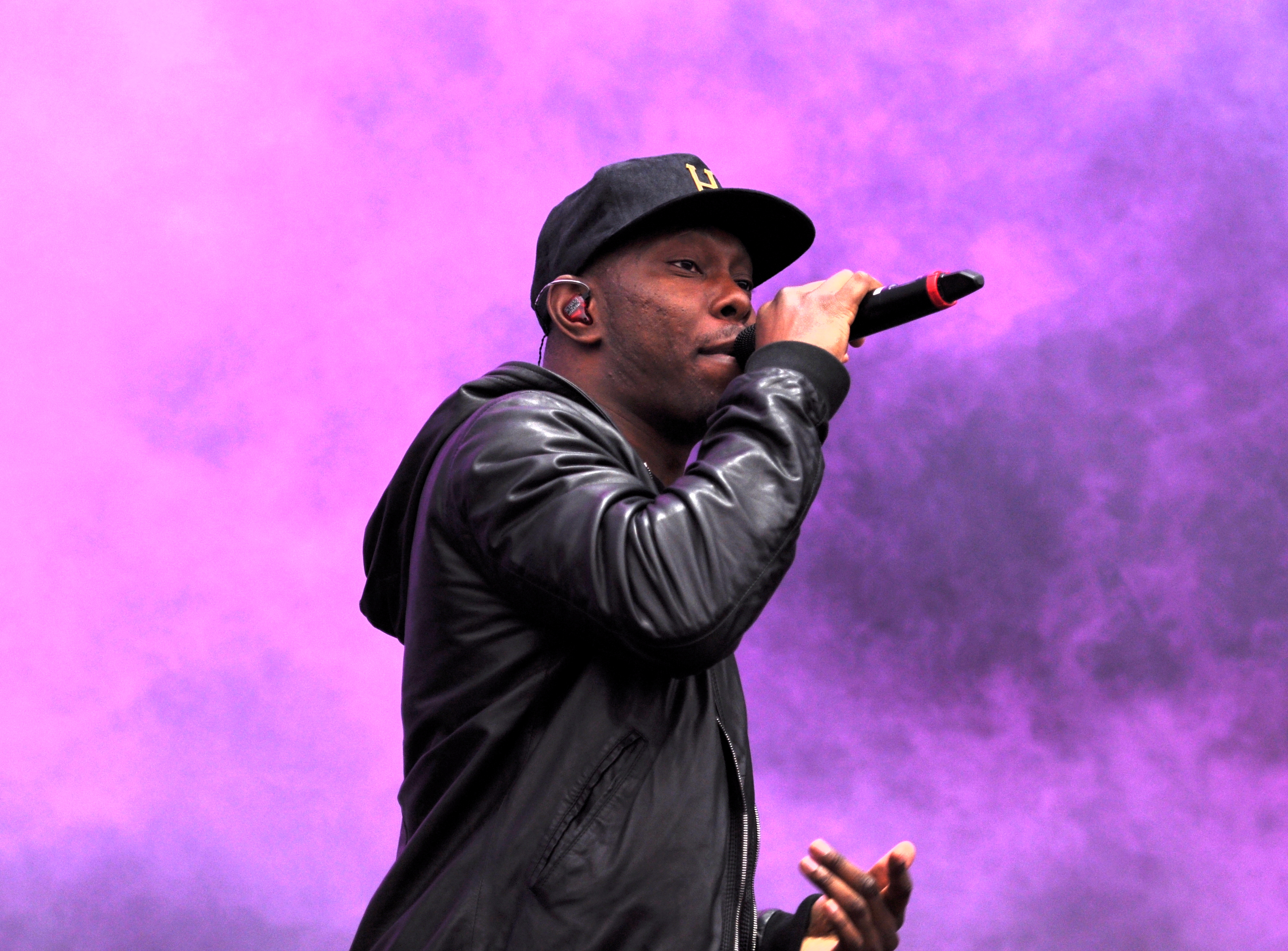 Dizzee Rascal at Rock am Ring 2013